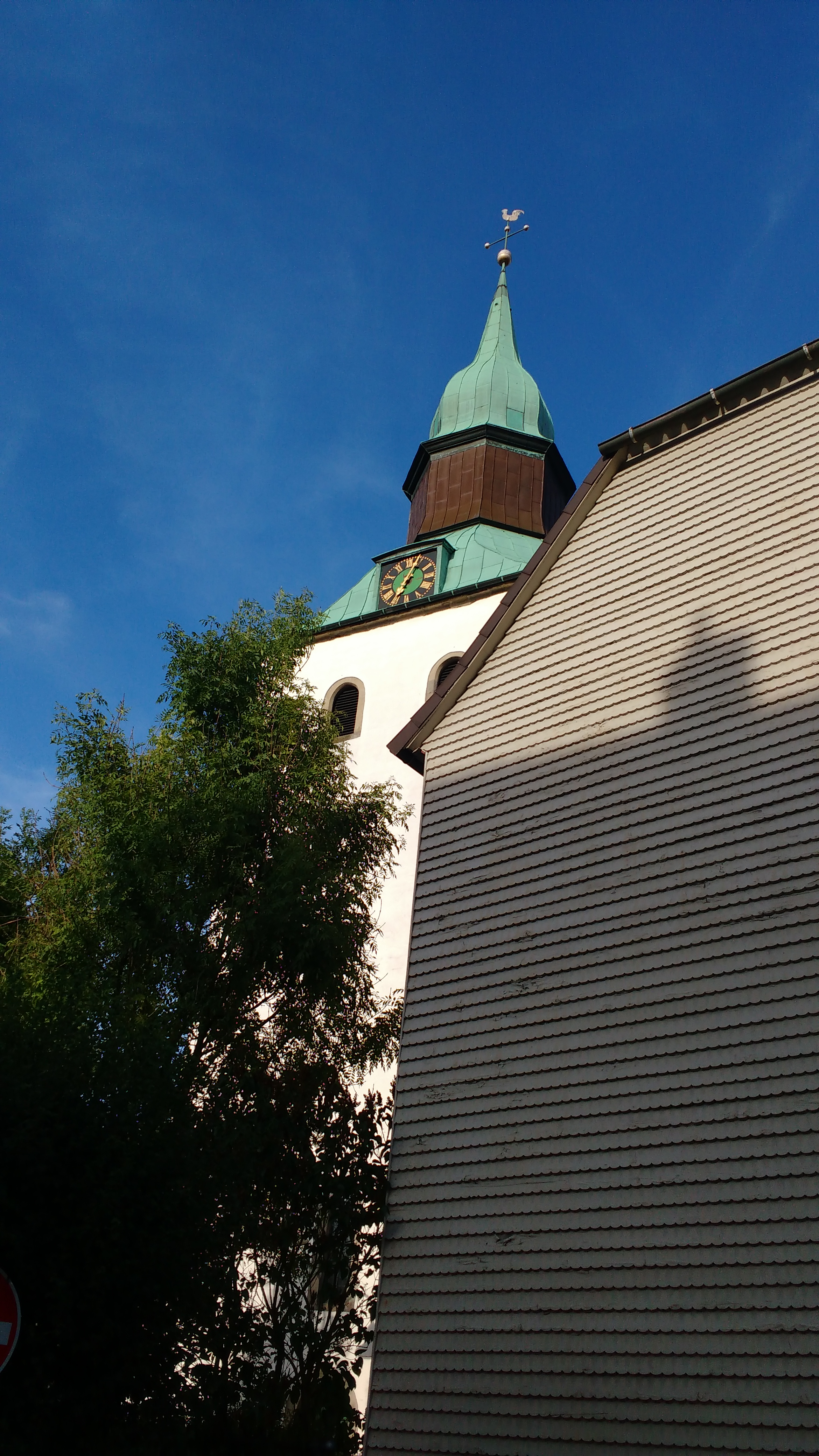 Bad essen eglise verte